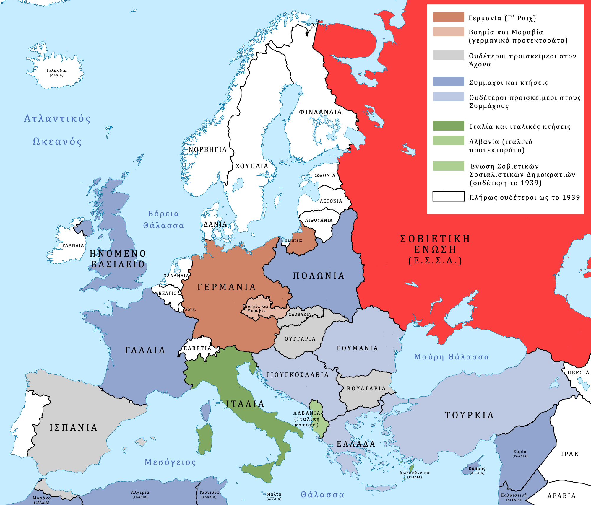 Europe before World War II in greek